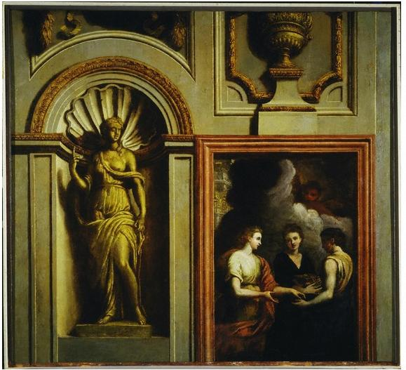 Psyche Giving Gifts to her Sisters